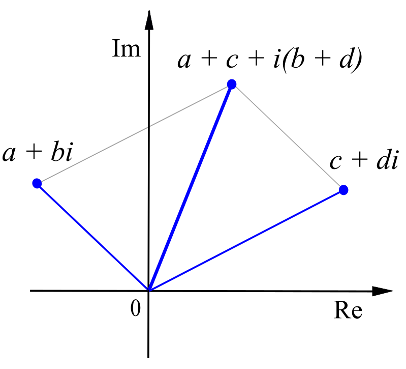 complex addition